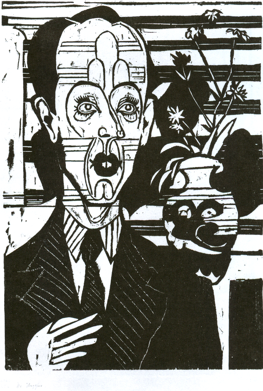 Portrait of Dr Max Huggler - woodcut - 50 x 35 cm - Kirchner Museum Davos